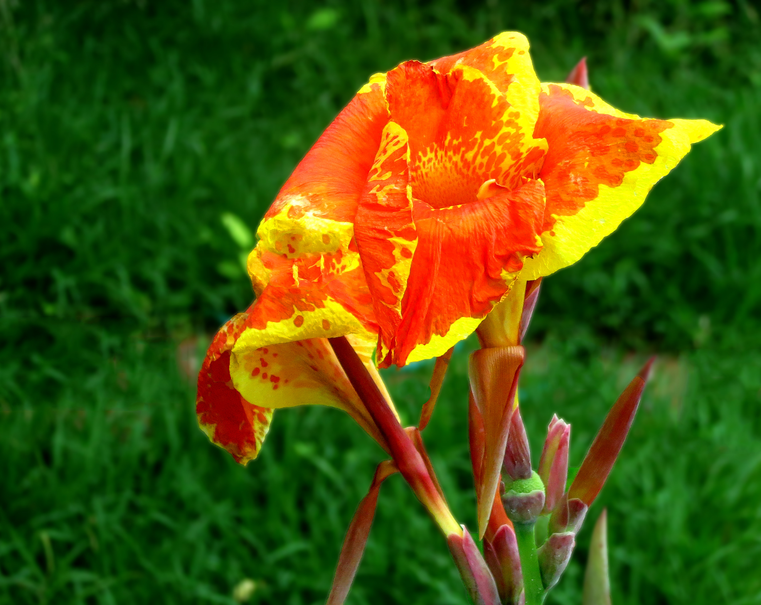 Canna Lily (not-a-real-lily) -- Canna